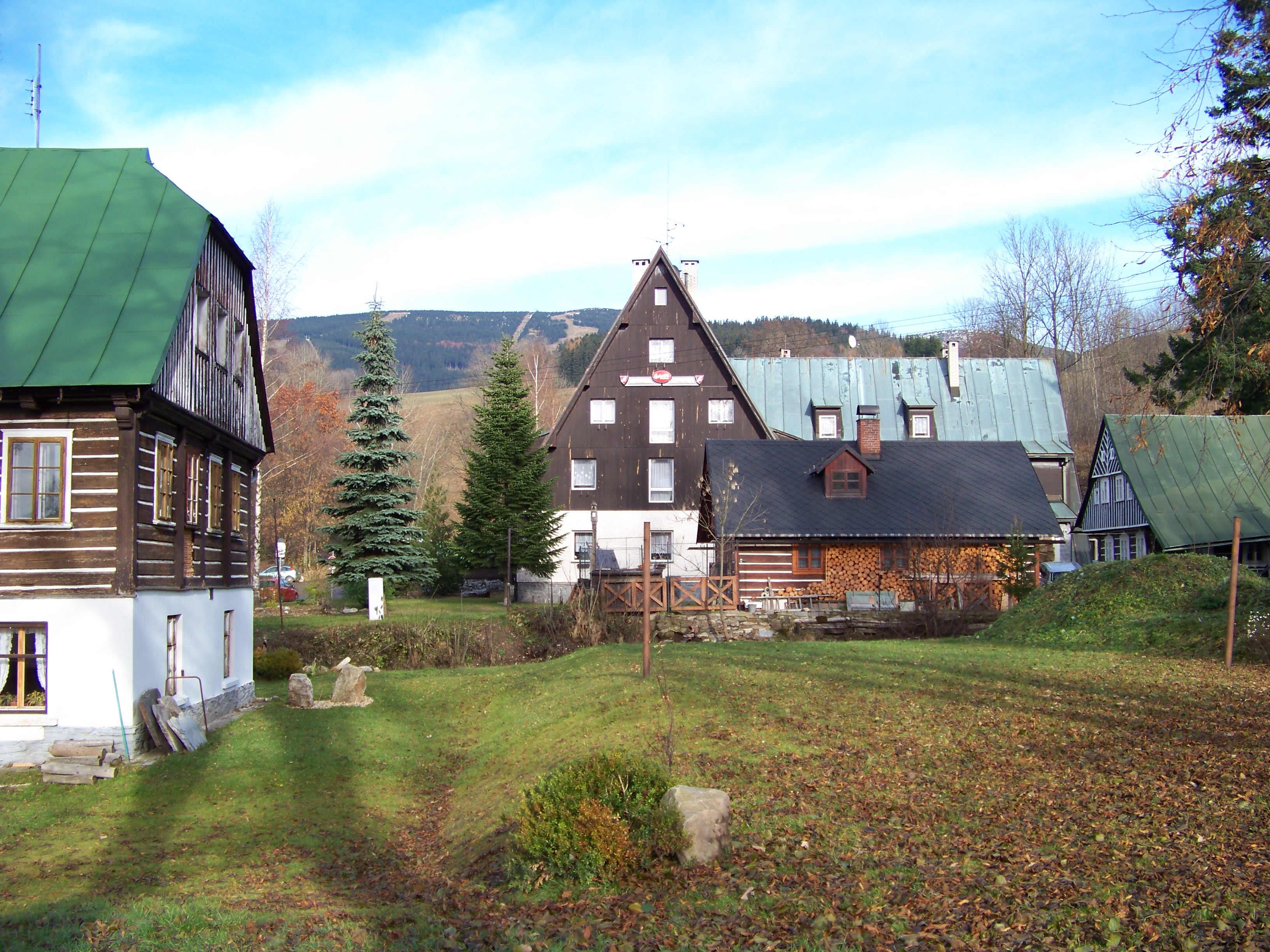 Rokytnice nad Jizerou-Rokytno, Semily District, Liberec Region, the Czech Republic.